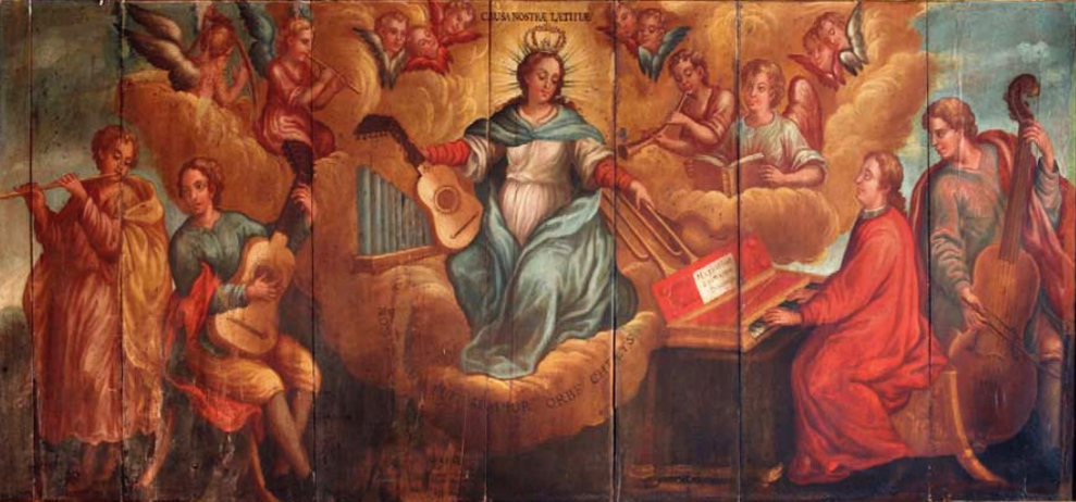 Causa nostrae laetitiae ("causa da nossa alegria"), Sala do Capítulo, Convento de São Francisco, Salvador, Bahia, Brazil.